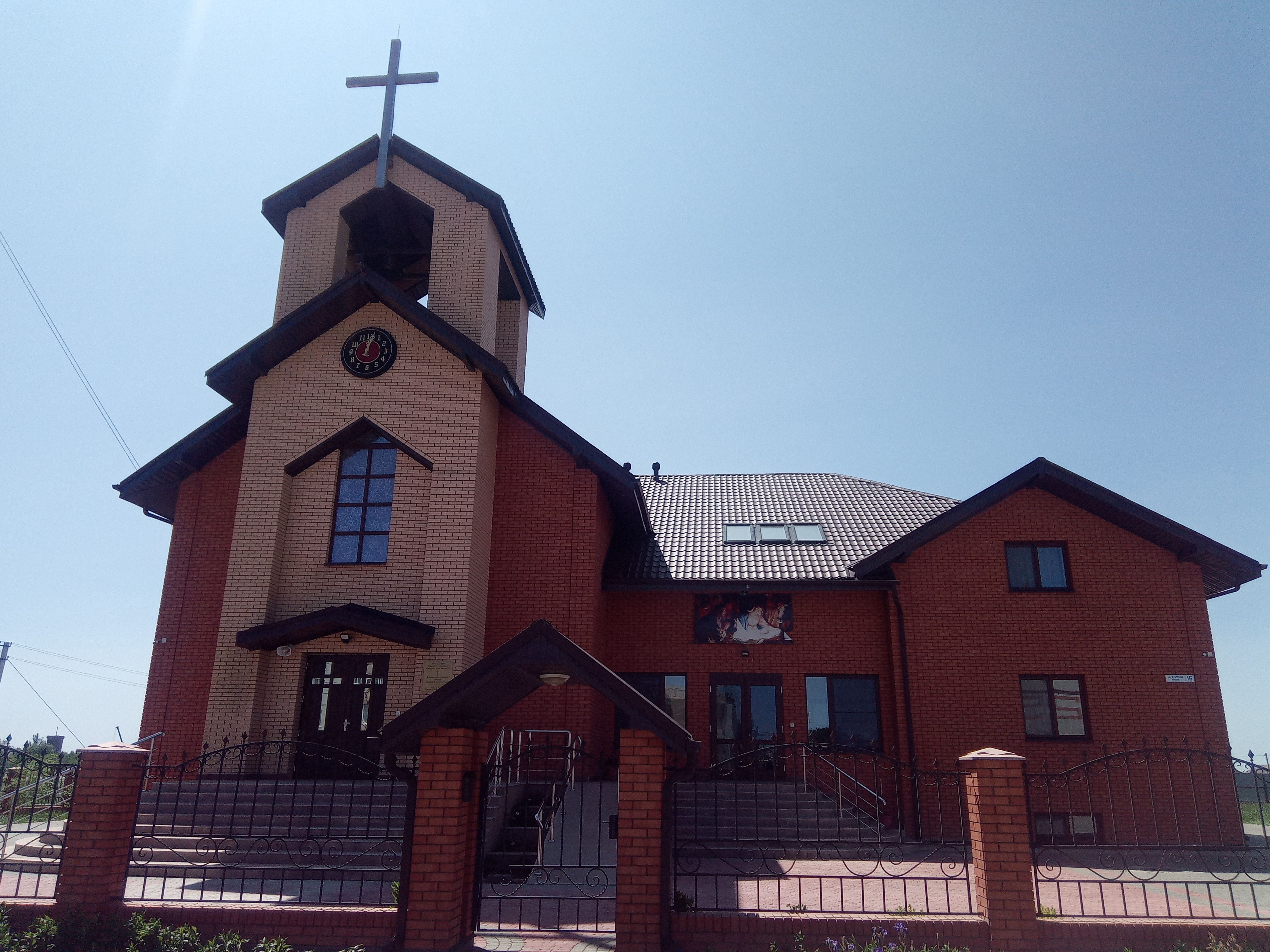 Parafia Świętej Rodziny w Chromtau